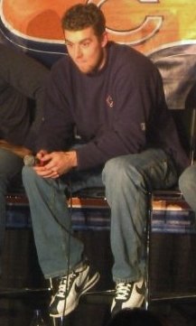 Chicago Bears backup quarterback Brett Basanez at the Bears' 2009 "Football 101" event.